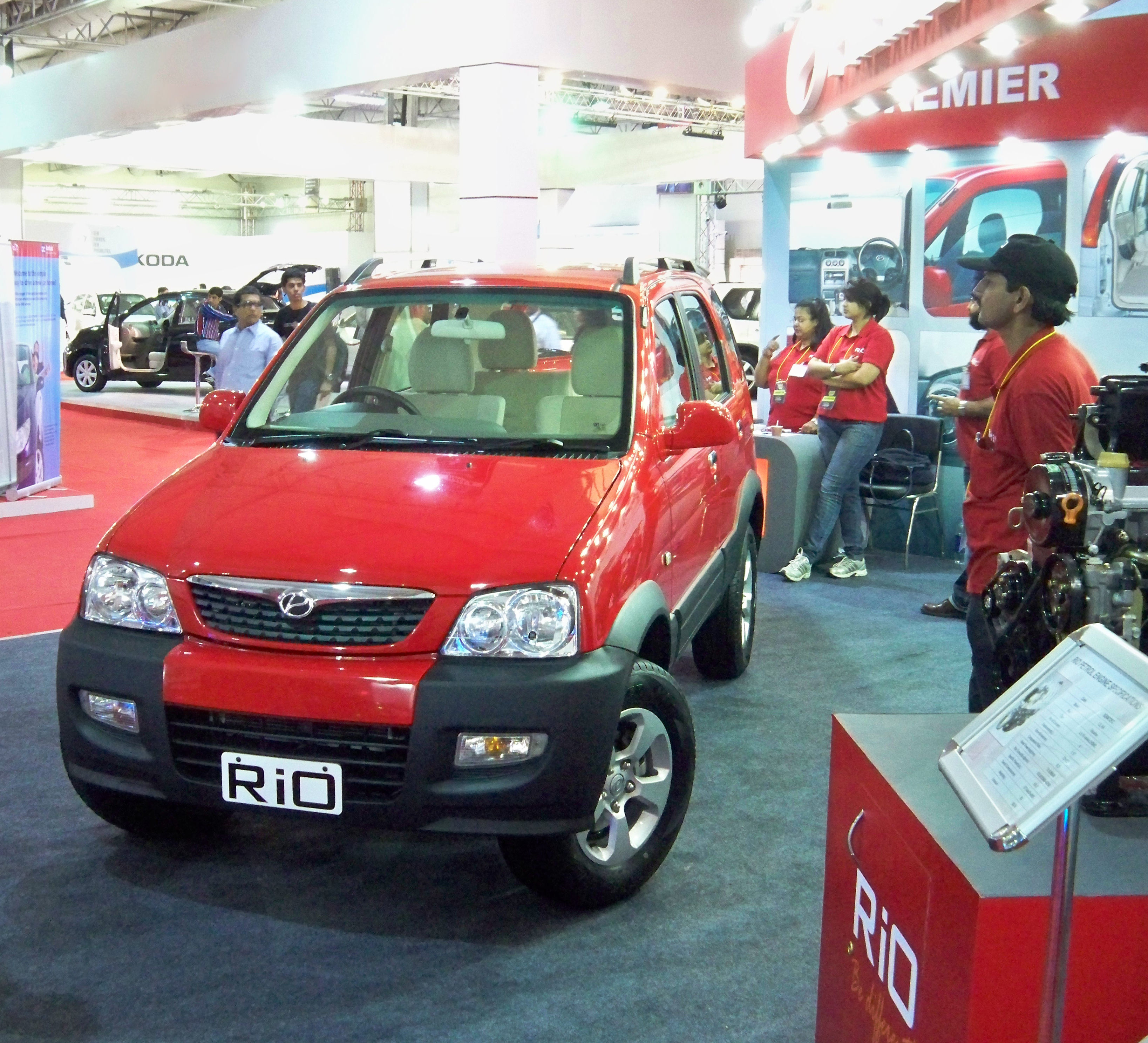 Premier Automobiles Limited's Premier RIO in 2012 Autocar Performance Car Show, Bandra-Kurla complex, Mumbai